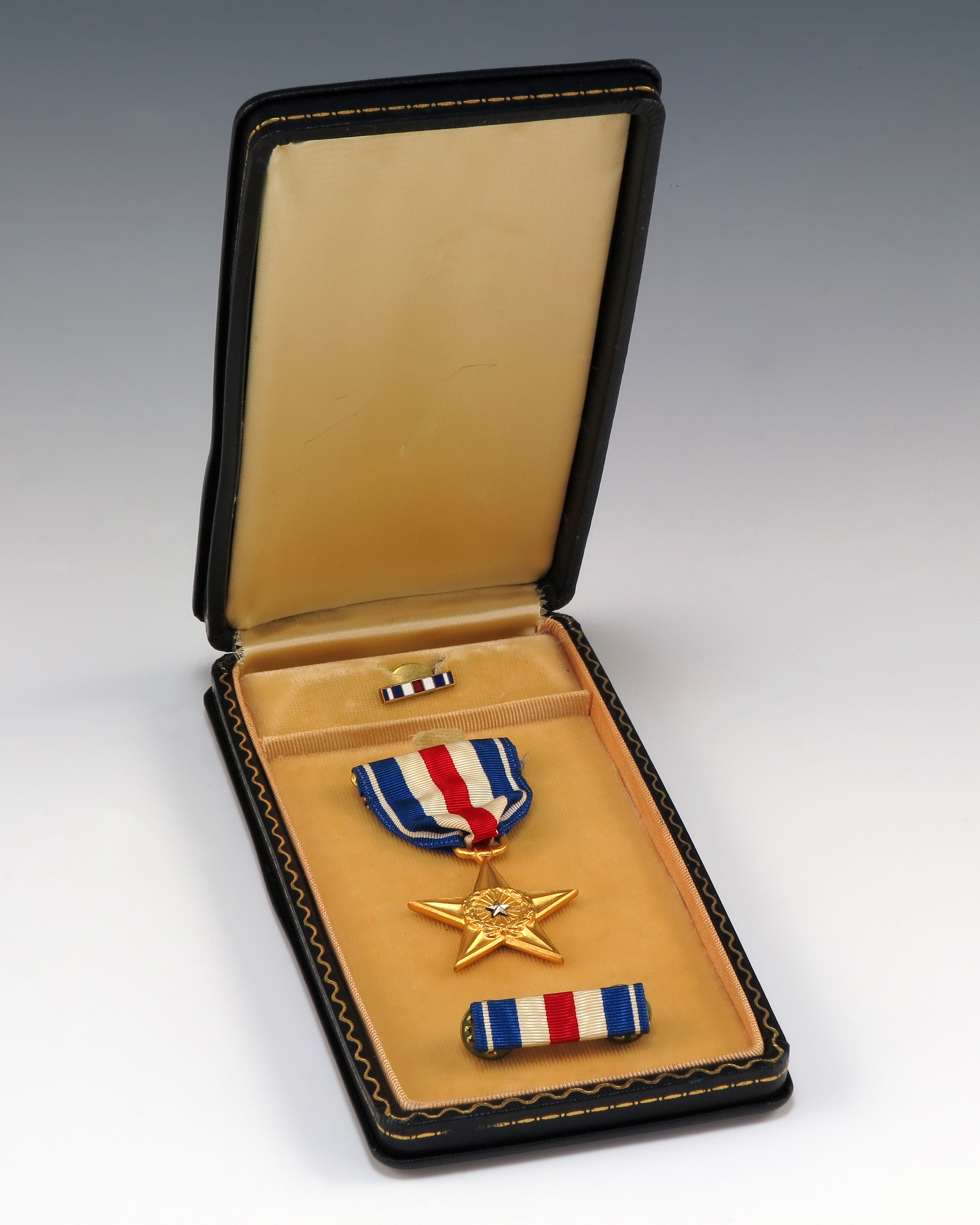 Silver Star medal with case, ribbon pin, and lapel button. Lt. James Robert Barnett earned this Silver Star for “gallantry in action” during the Vietnam War. He mailed it (along with his other military medals and commendations) to President Gerald R. Ford in protest over Ford's conditional amnesty program for Vietnam draft evaders.